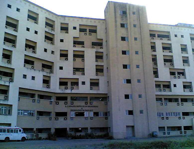 Front side of kjsieit.